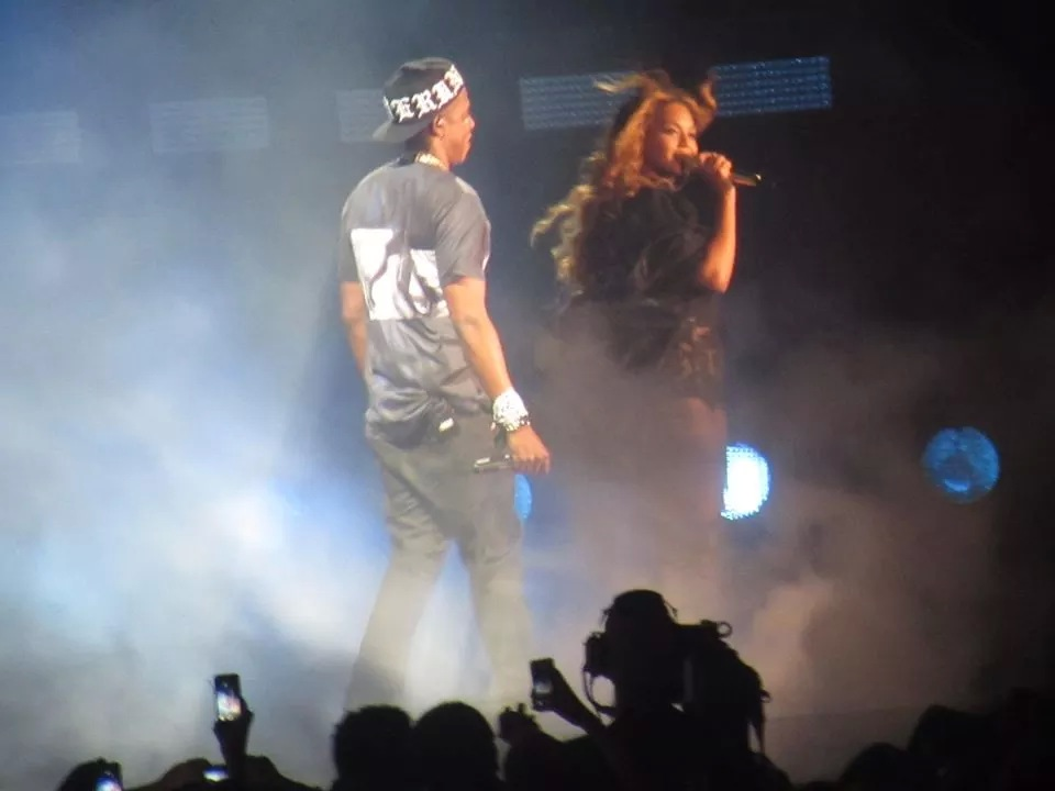 Beyoncé and Jay-Z performing at Safeco Field in Seattle, Washington during their co-headlining "On the Run Tour", on July 31, 2014.